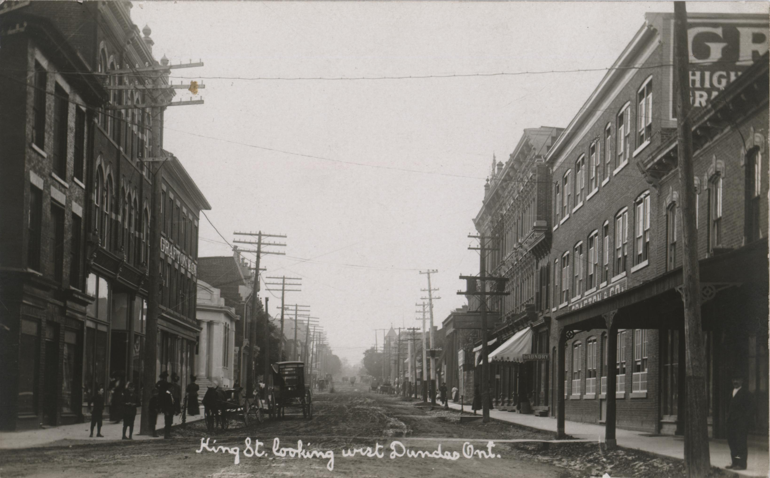 King Street looking west from the corner of King and Main/Cross. Note the Carnegie Library (now the Carnegie Gallery) on the left.